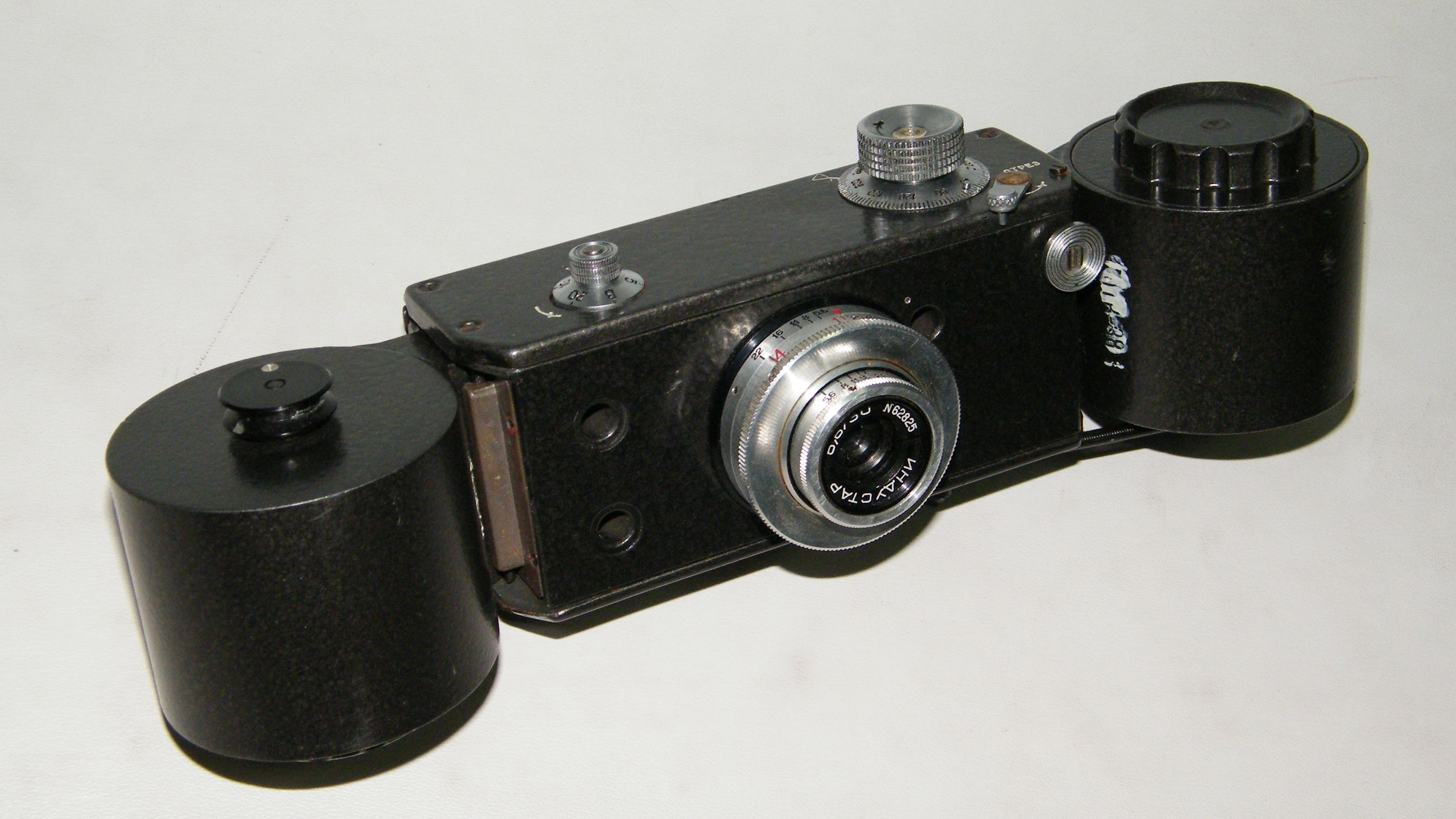 Elochka camera